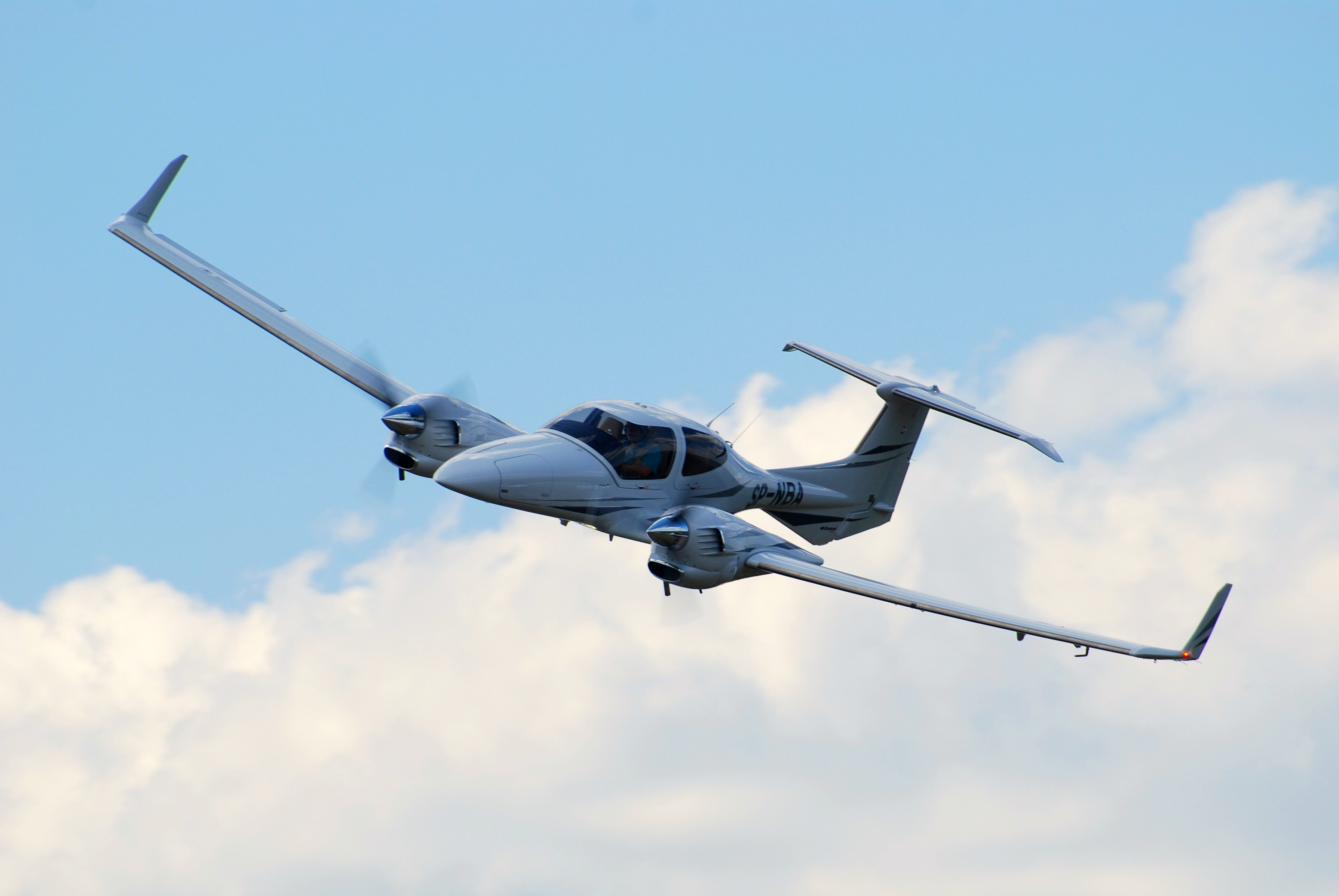 Diamond DA42 Twin Star SP-NBA -- fly-by